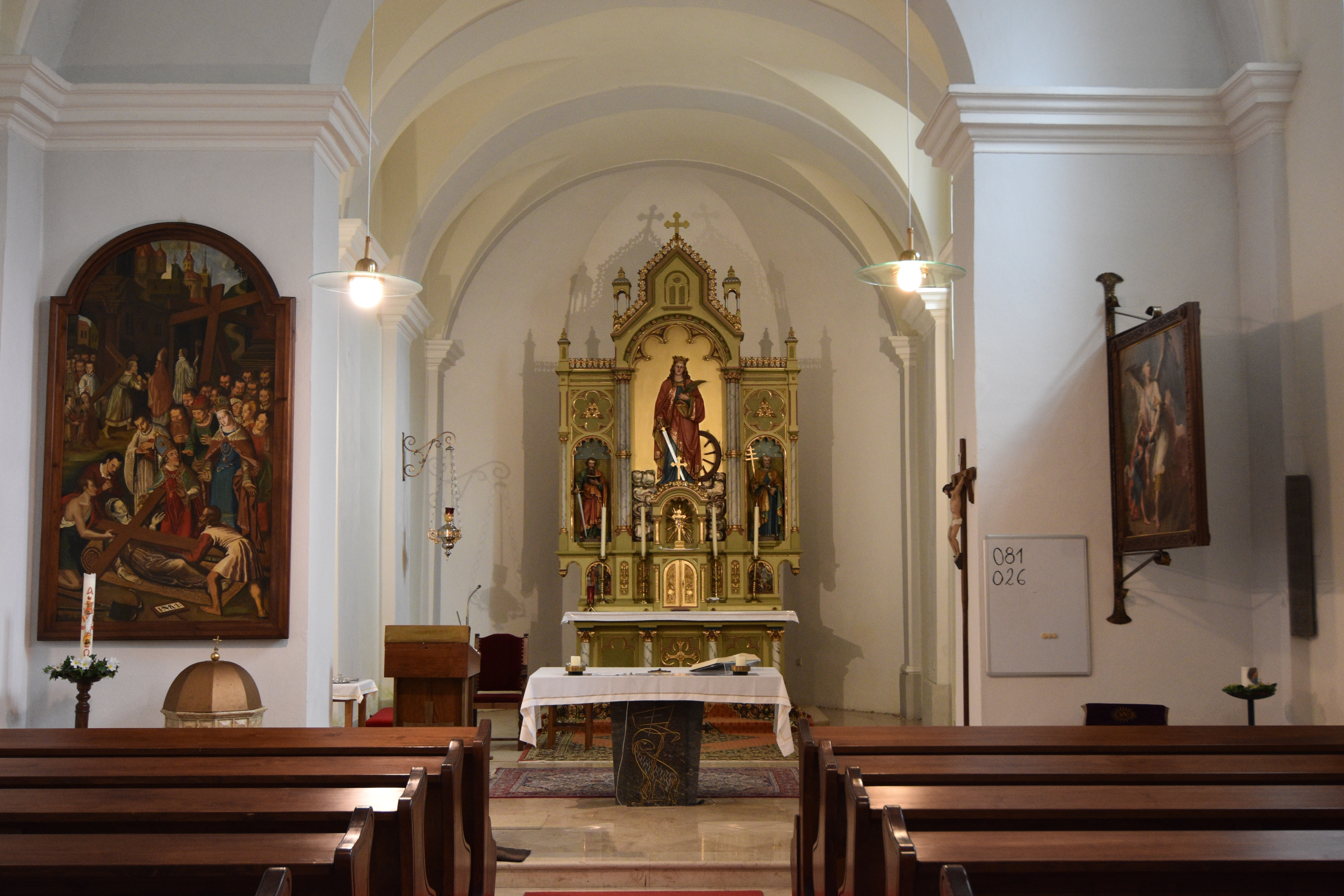 Saint Catherine of Alexandria Church (Sankt Kathrein im Burgenland) - Interior